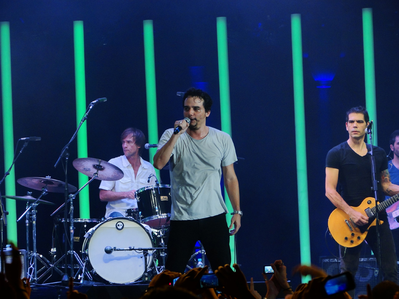 Surviving members of Legião Urbana performing a tribute show with Wagner Moura as lead vocalist.